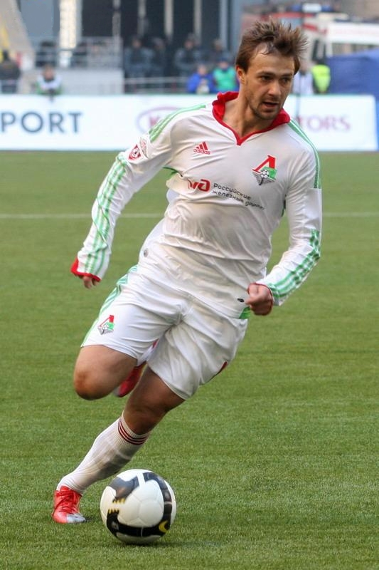 Dmitry Sychev in action for FC Lokomotiv Moscow